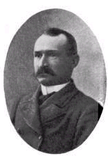 Appletons' Annual Cyclopædia and Register of Important Events